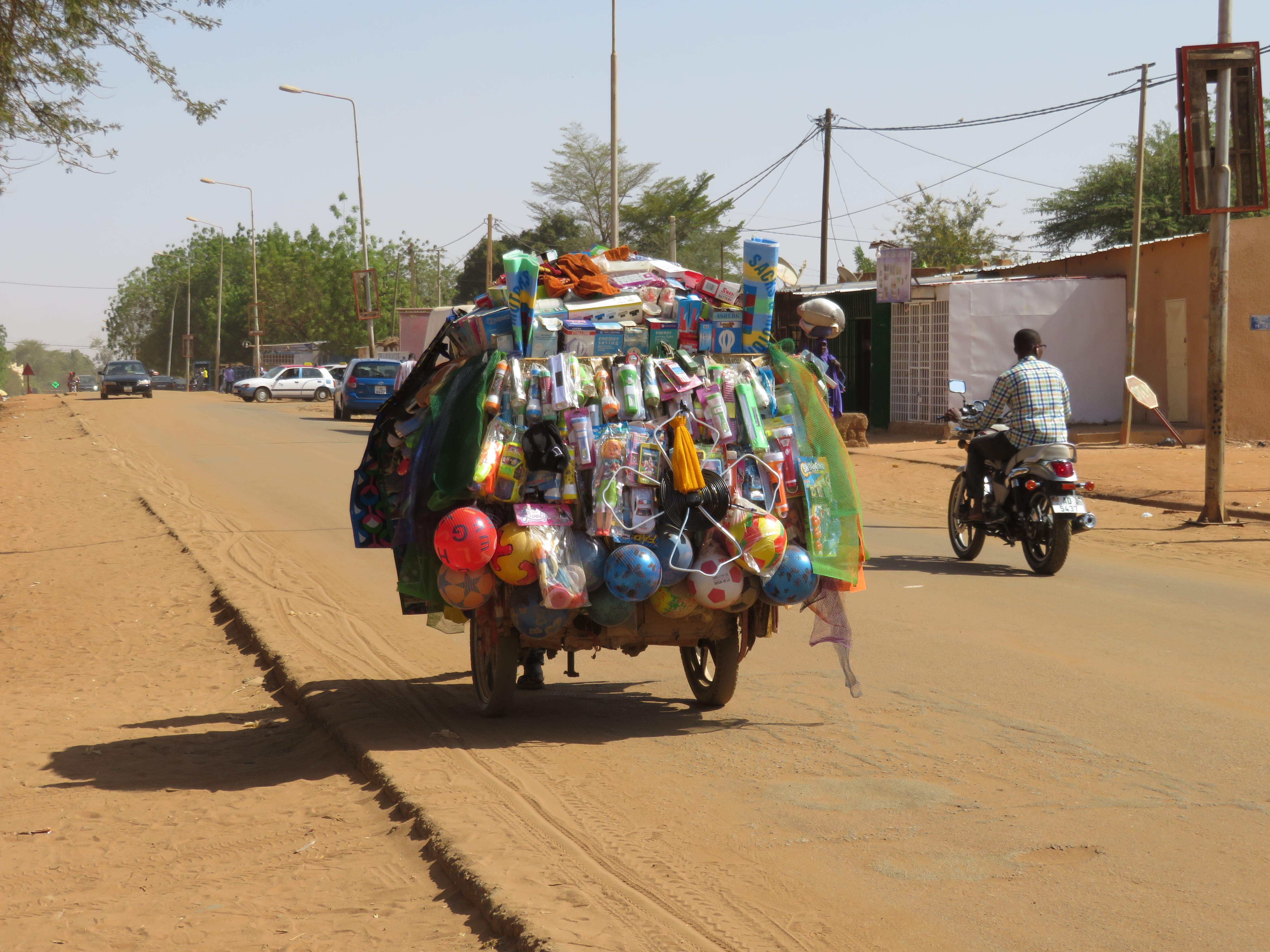 modes of transport This is an image with the theme "Africa on the Move or Transport" from: Niger